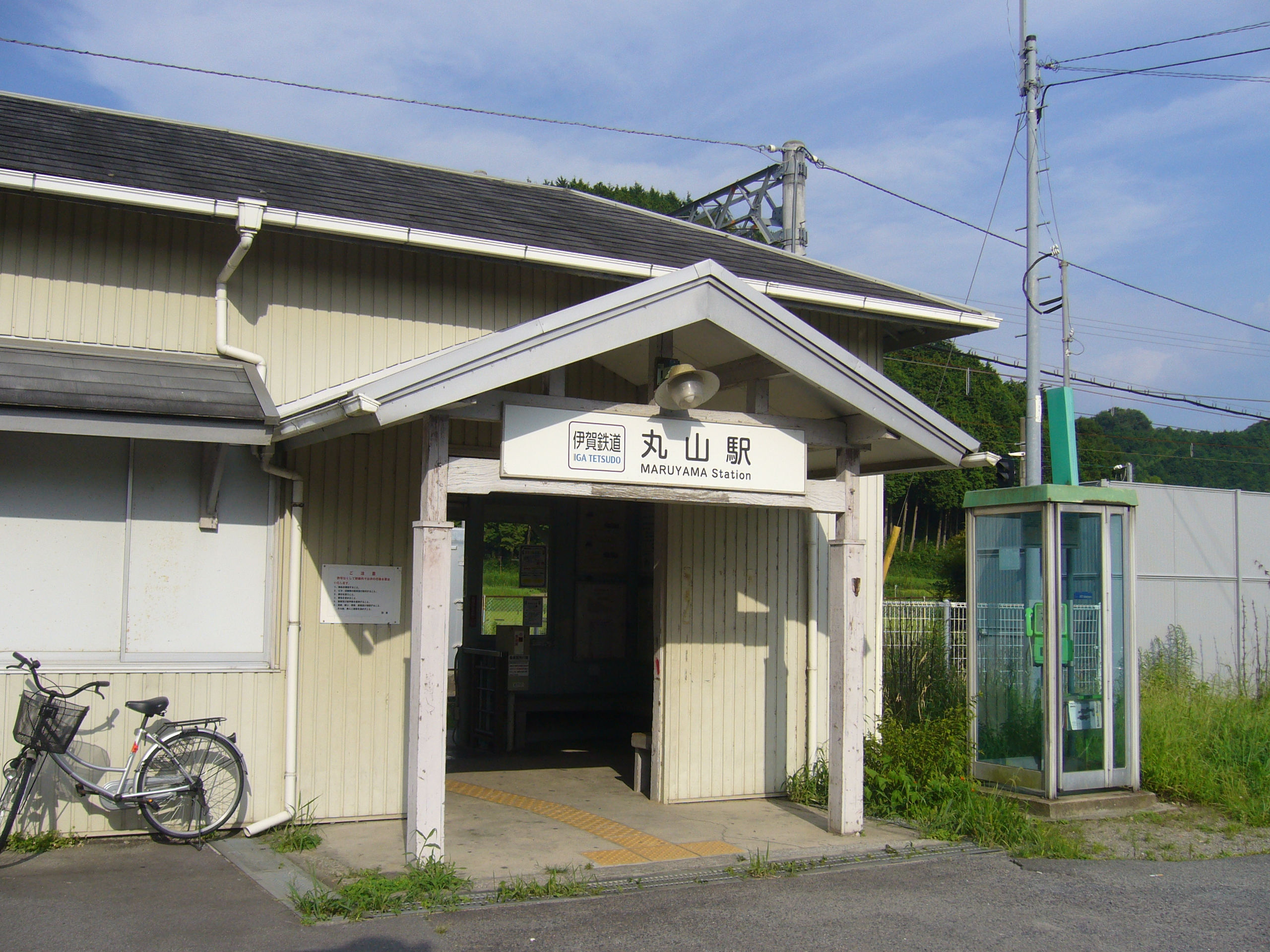 This is a picture of Maruyama station,Iga railway line.